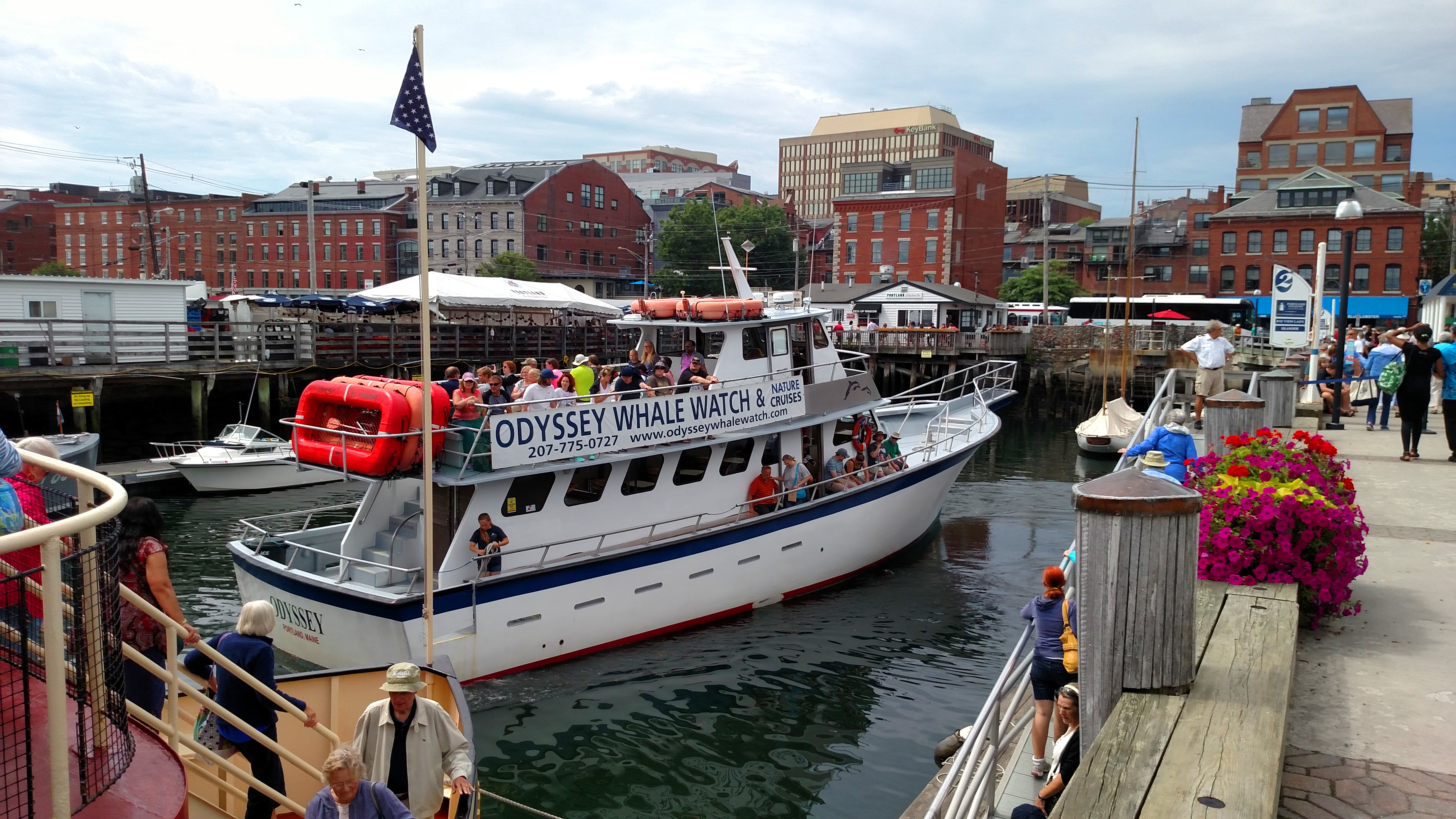 Portland Maine waterfront